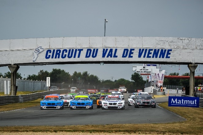 supertourisme val de vienne